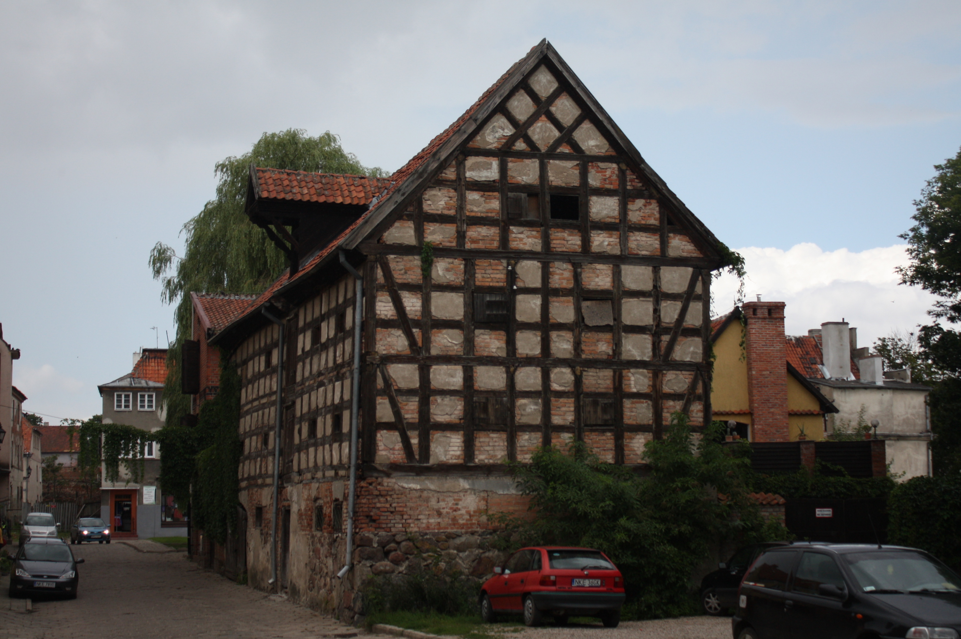 This photo of Warmian-Masurian Voivodeship was taken during Wikiexpedition 2012 set up by Wikimedia Polska Association. You can see all photographs in category Wikiekspedycja 2012. The making of this document was supported by Wikimedia Polska.